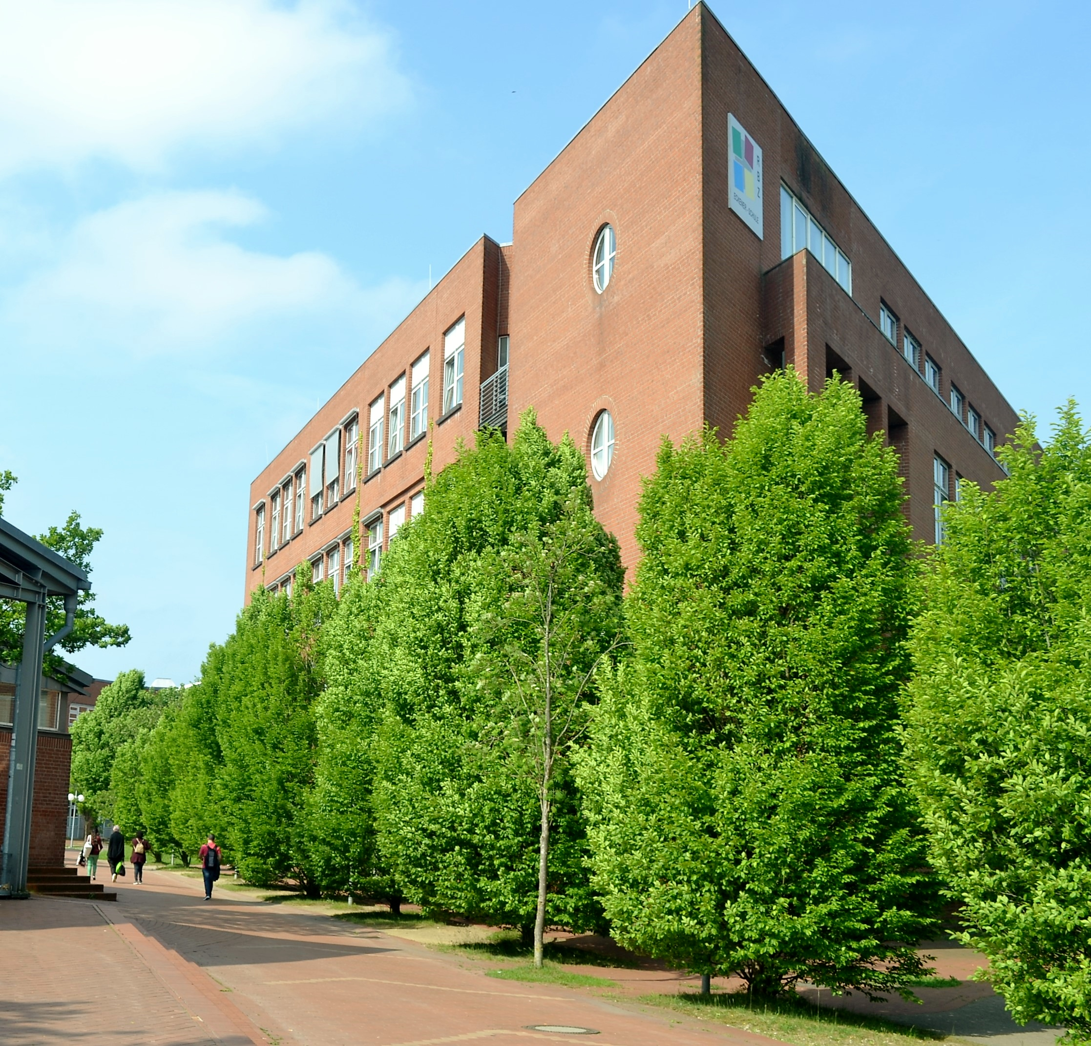 corner photo Eckener Schule